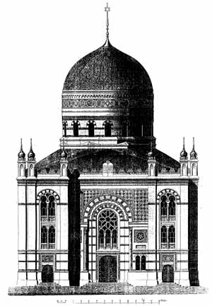 Synagogue in Czernowitz, built in 1877 par architect Zachariewicz. Drawing of the west side.